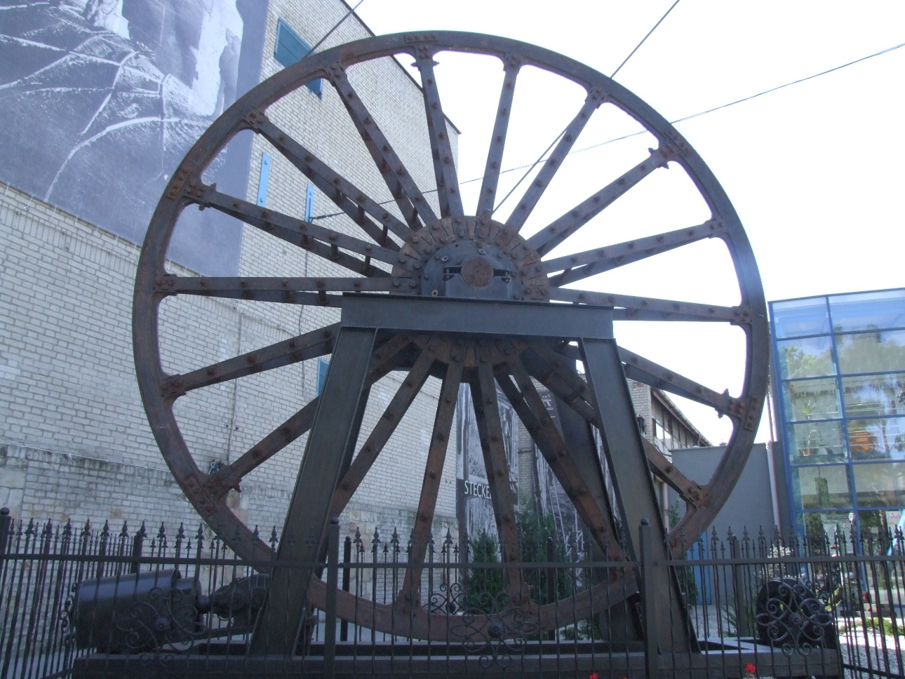 Subterranean skansen Guido in Zabrze - the fly-wheel